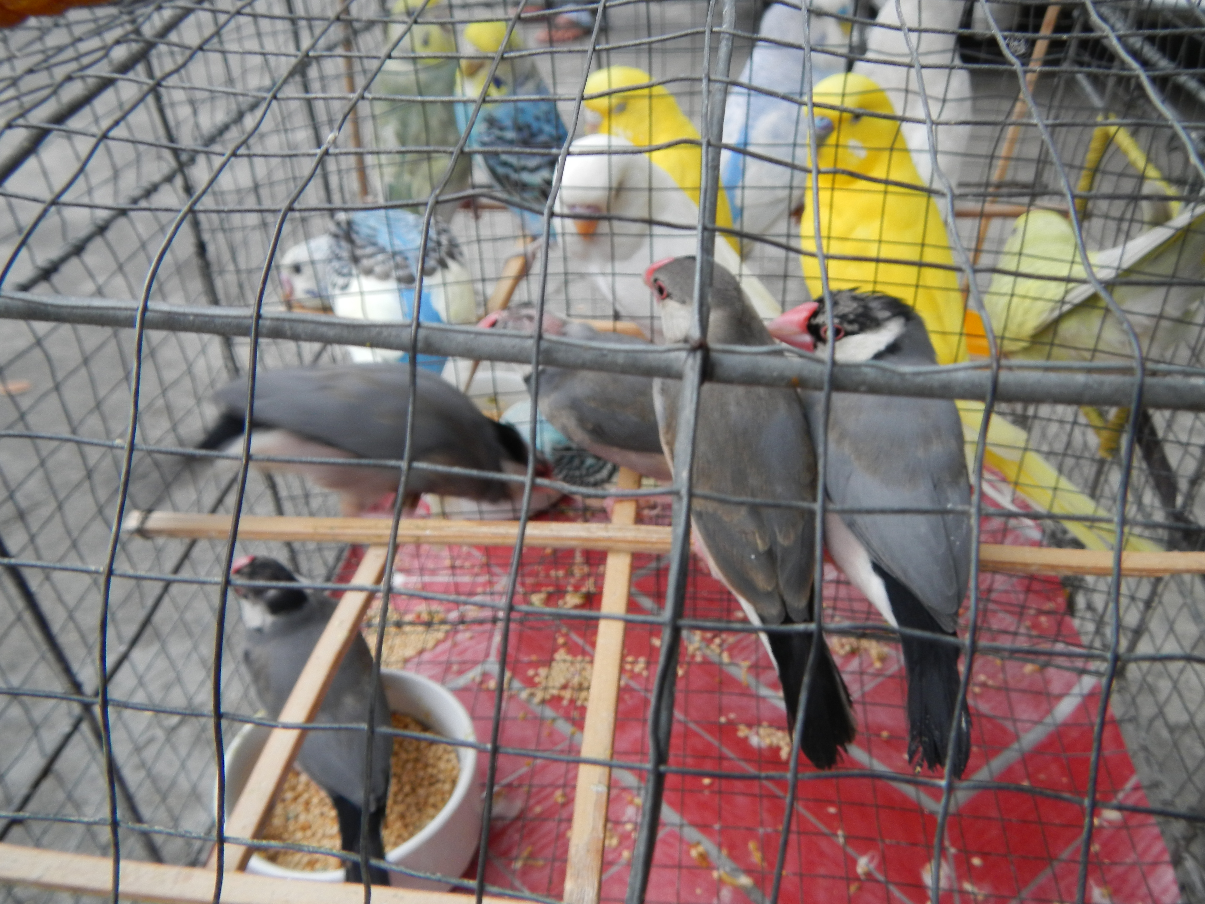 The Java Sparrow, (Padda oryzivora) also known as Java Finch, Java Rice Sparrow or Java Rice Bird is a small passerine bird.[1] This estrildid finch is a resident breeding bird in Java, Bali and Bawean in Indonesia. It is a popular cagebird, and has been introduced in a large number of other countries. Some taxonomsts place this and the Timor Sparrow in their own genus Padda.[2] and Lovebird[3]